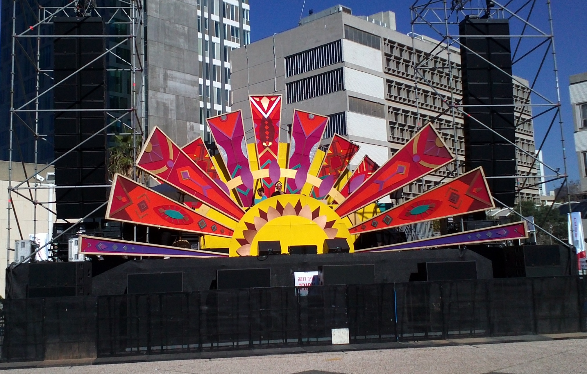 Israel Aharoni as DJ, December 26, 2014